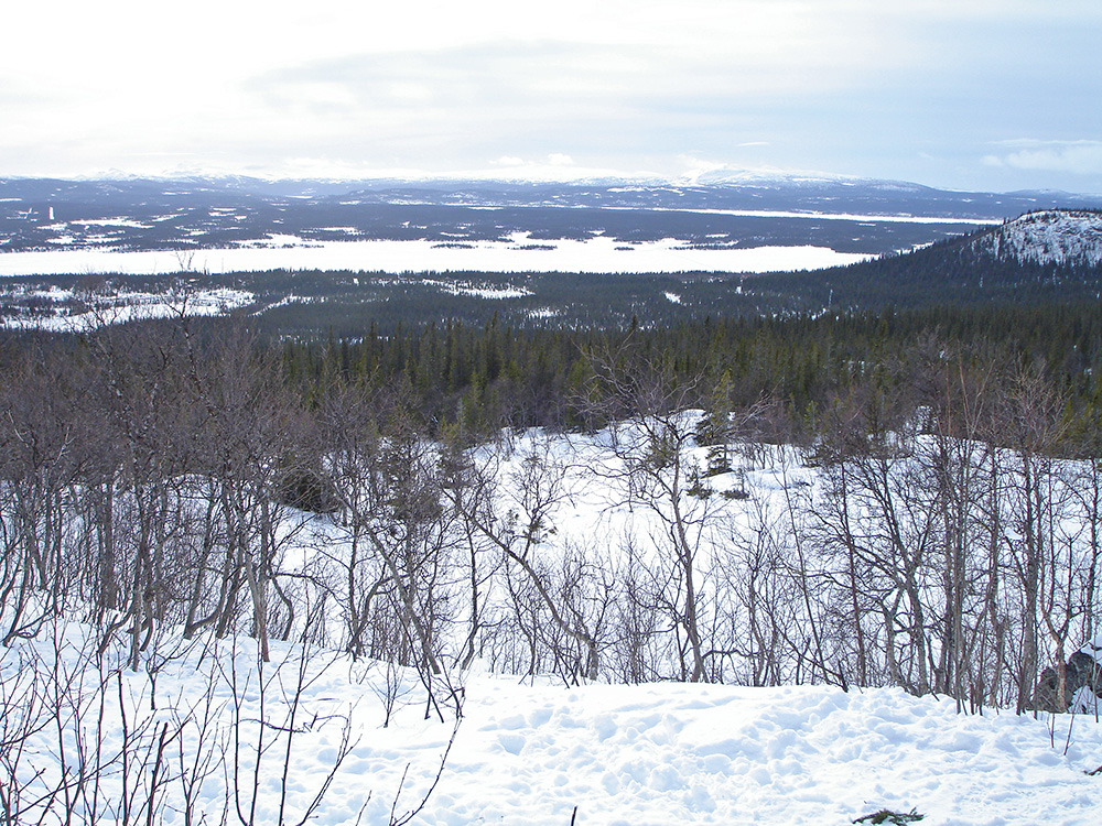 Lake Västra Marssjön viewed from the north.